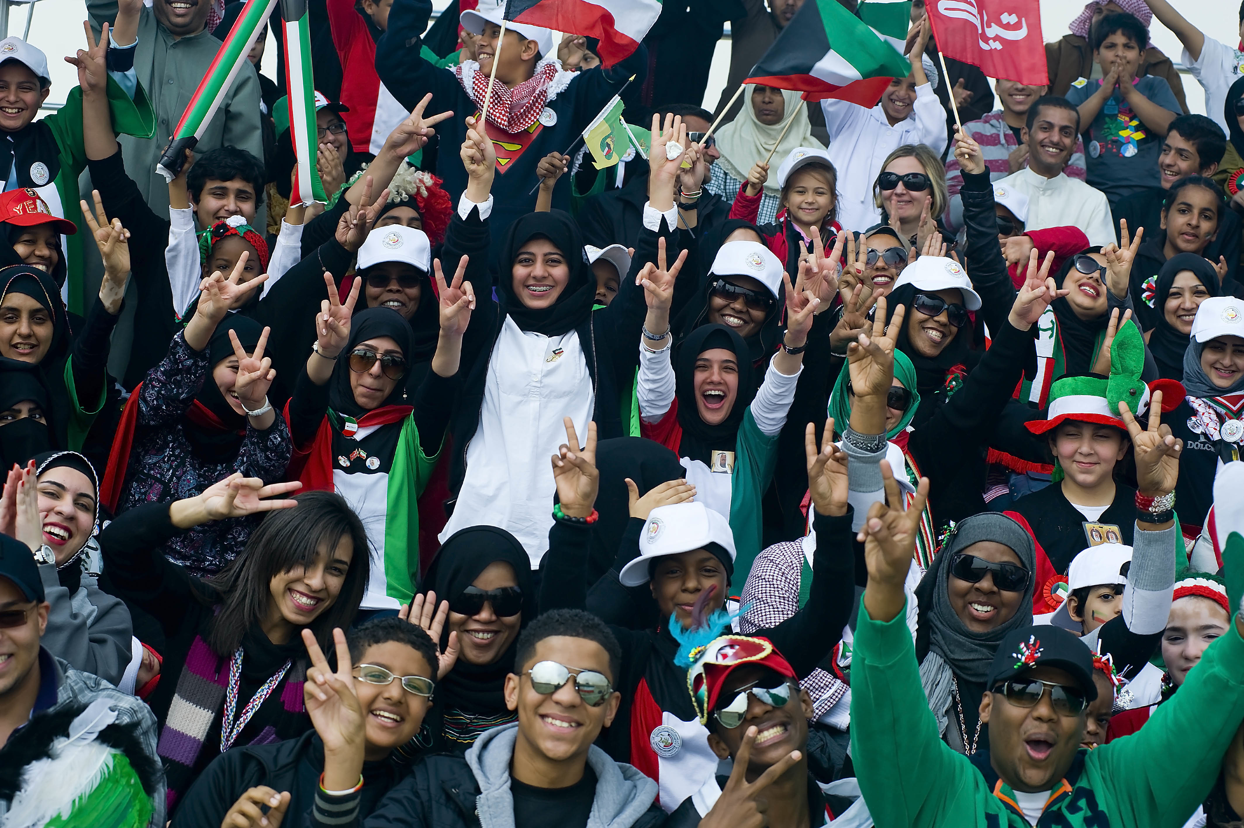 A crowd of Kuwaiti spectators erupt in cheers bearing a message of peace during the 50/20 Celebration parade in Kuwait Feb. 26. The 50/20 Celebration honors 50 years of Kuwaiti independence and the 20 years since Operations Desert Storm.